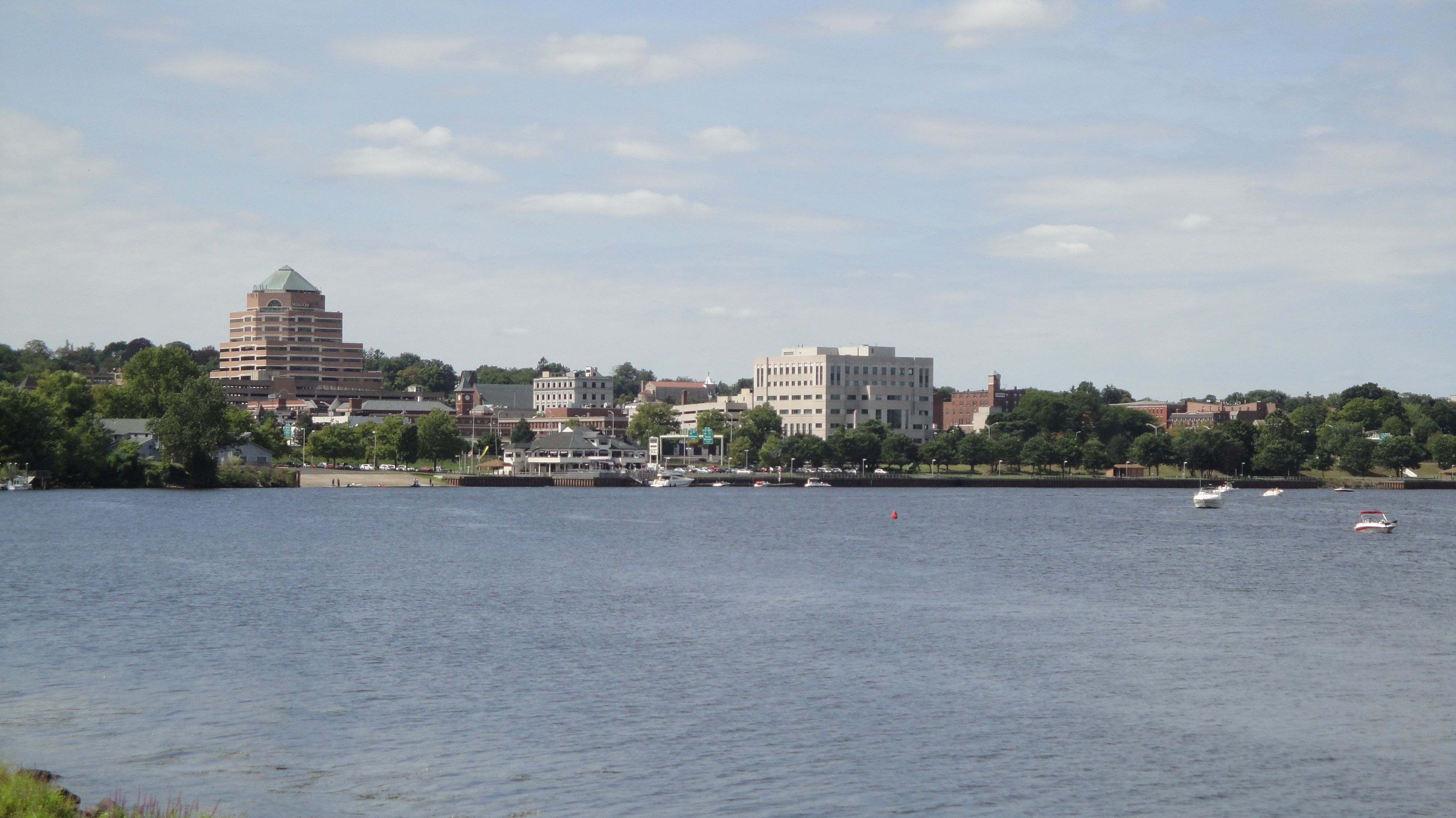 City of Middletown, Connecticut as seen from River Road, looking west/northwest along the major bend in the Connecticut River, showing Harbor Park and buildings along Main Street and downtown.